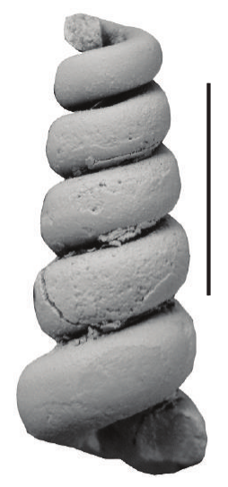 Black-and-white photo of apertural view of paratype Potamides archiaci PG/K/Cr 42. Scale bar is 10 mm.